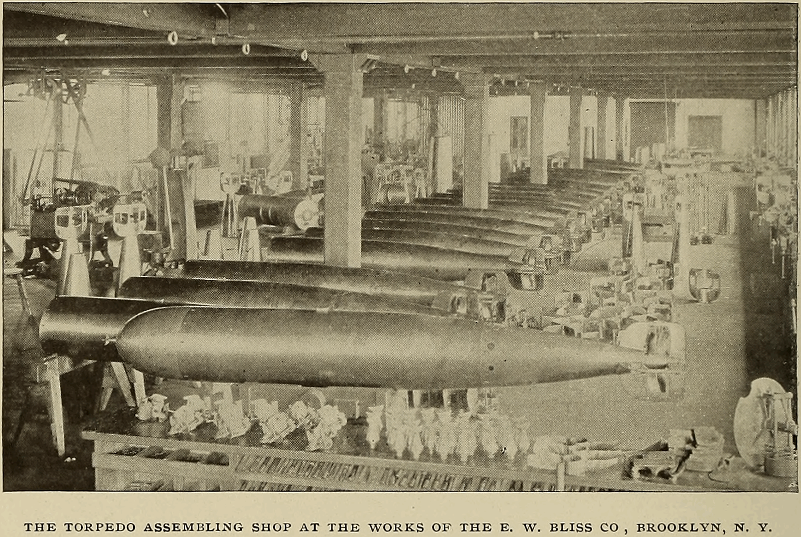 Cassier's Magazine of February 1897 had an article on page 251-259, written by R. B. Moyer and titled The Whitehead Automobile Torpedo. It was accompanied by a number of illustrations, including this photo from the torpedo factory of E. W. Bliss, licensed to build Whitehead torpedoes for the U.S. Navy, on page 256.